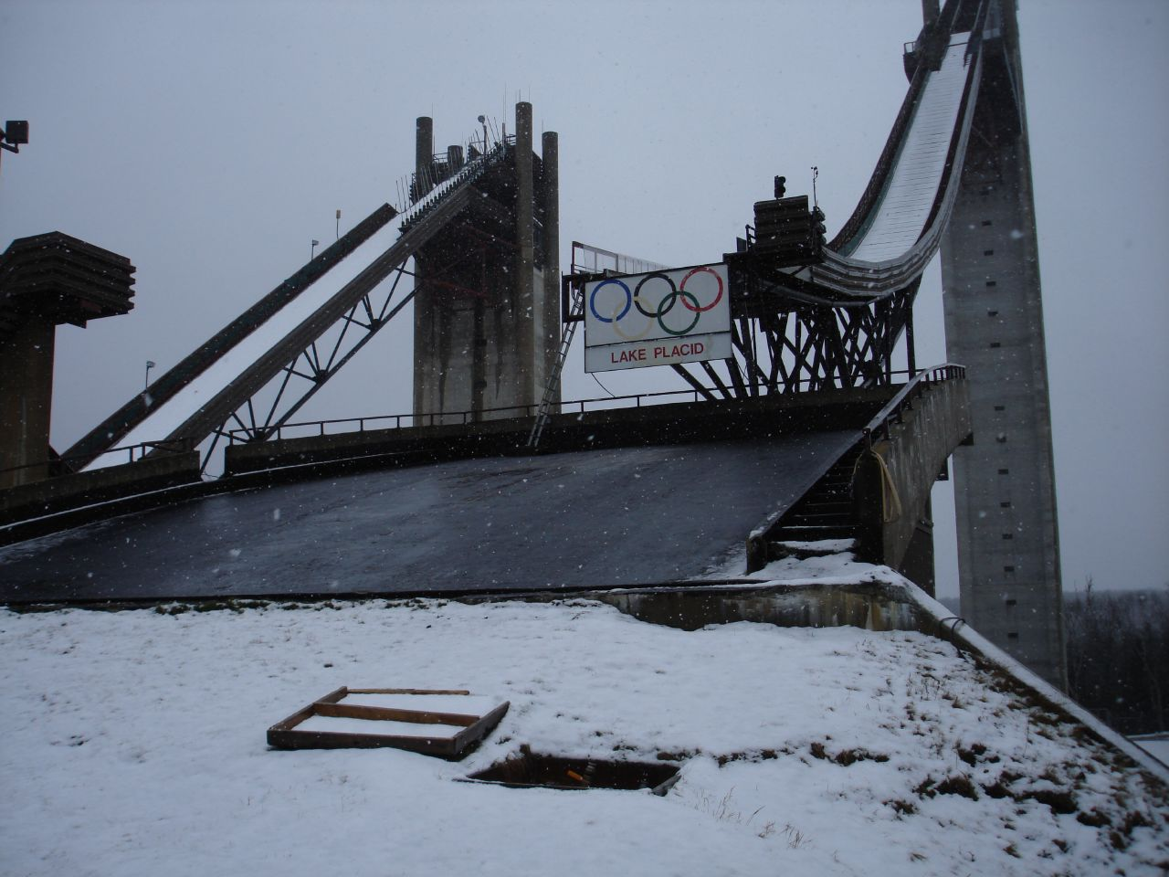 MacKenzie Intervale Ski Jumping Complex, Lake Placid, New York, USA.